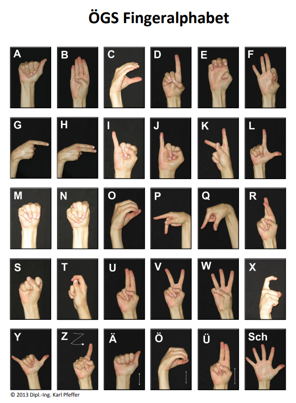 Finger alphabet of austrian sign language